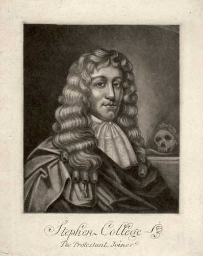 Stephen College (executed 1681), whig agitator